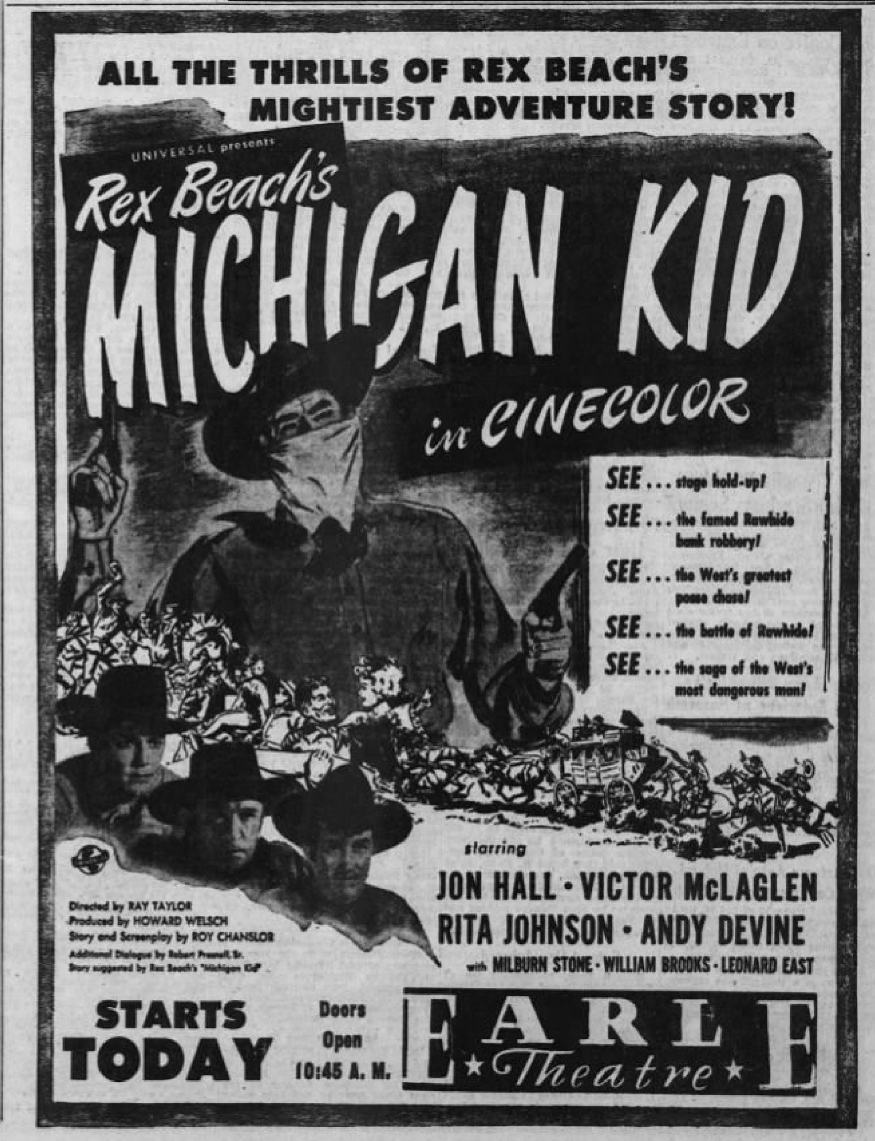 Earle Theater advertisement for the American western film The Michigan Kid (1947) - 11 Mar. 1947 Morning Call, Allentown PA